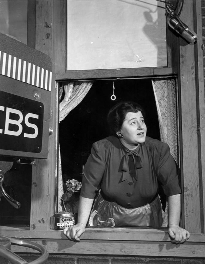 Publicity photo of Gertrude Berg on the set of The Goldbergs television show.